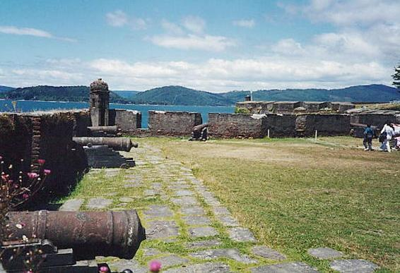 A general view of the Corral fort. I took the photo.